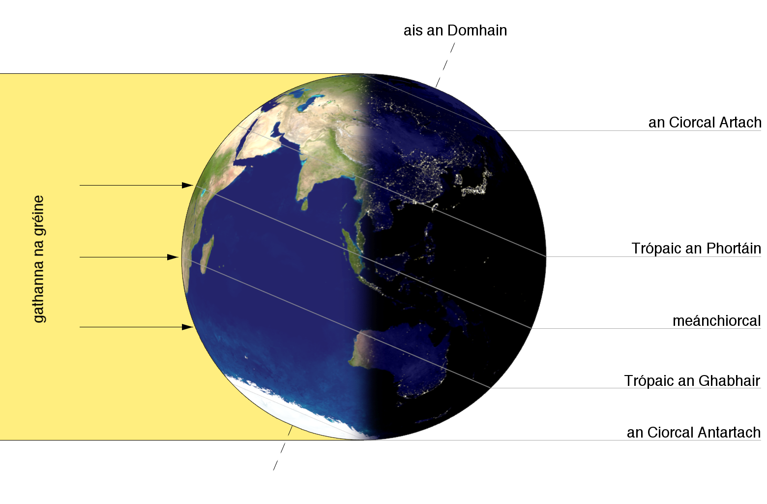 A view to eastern-hemisphere showing noon in Central European time zone (ignoring DST) on the day of winter solstice (on northern hemisphere - this is summer solstice on southern hemisphere). This is an Irish translation of the English-language version (Image:Earth-lighting-winter-solstice EN.png).